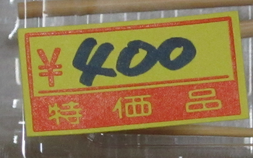 Ryakuji of 品, in a price label reading ¥400, 特価品 (bargain item). Label is on a plastic box of chicken skewers.